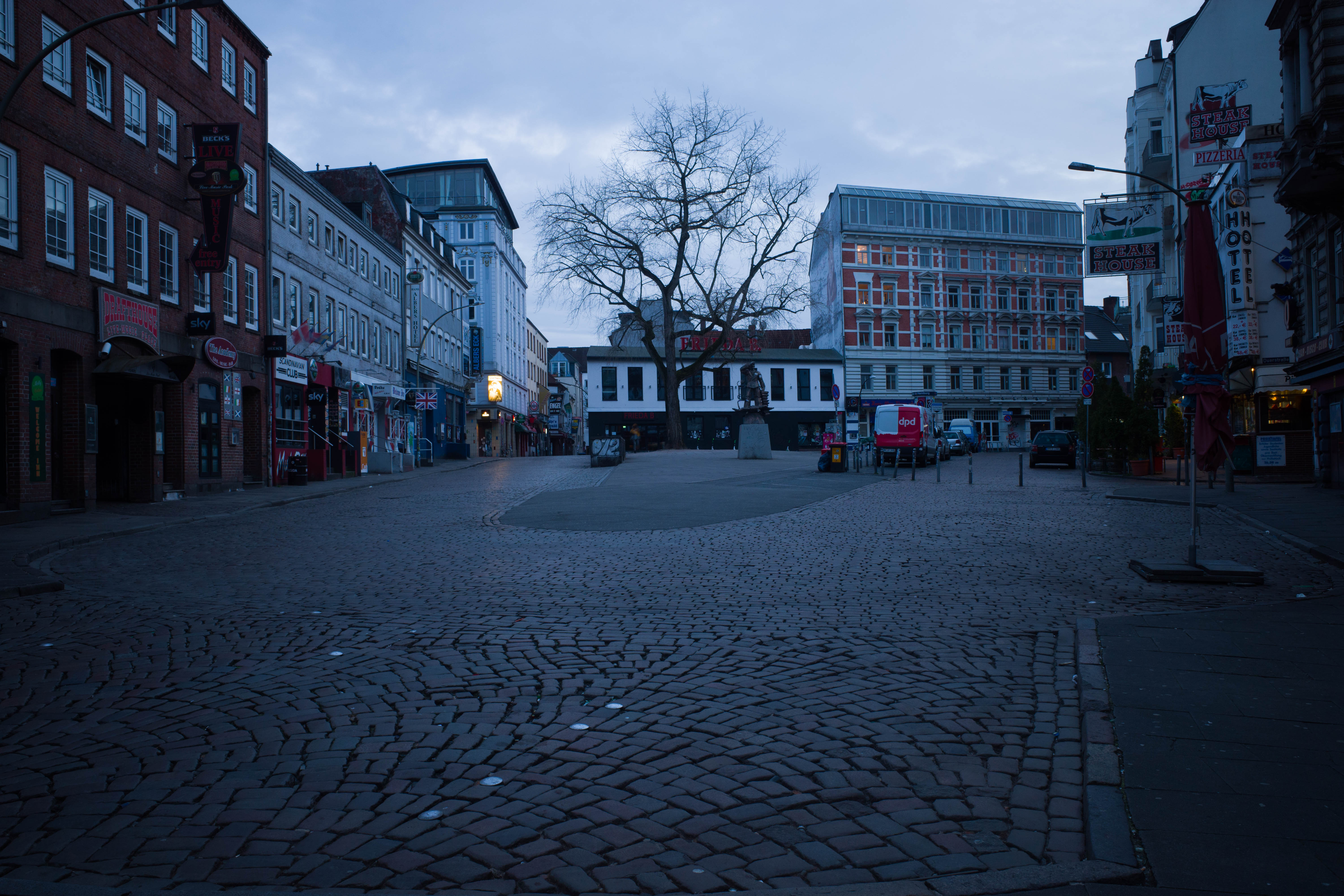 Während des Corona-Shutdowns.